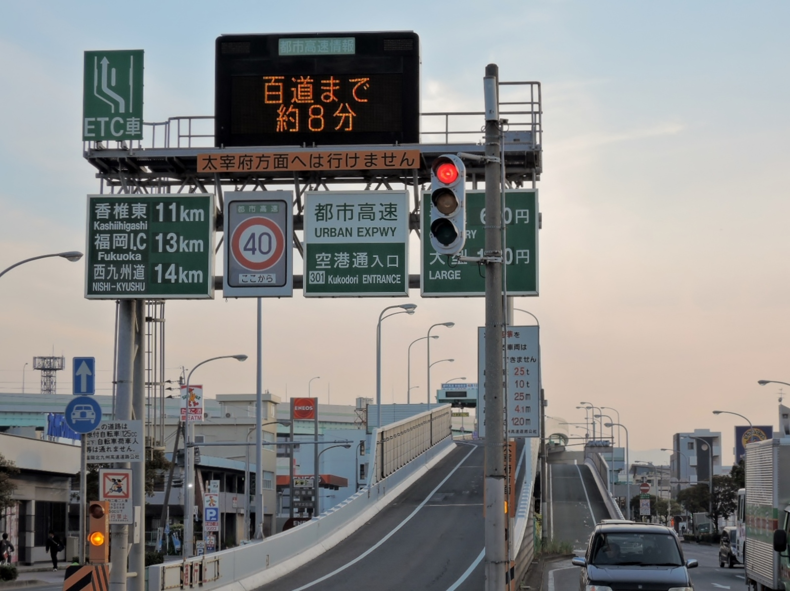 Kukodori Interchange on the Fukuoka Expressway Airport Route